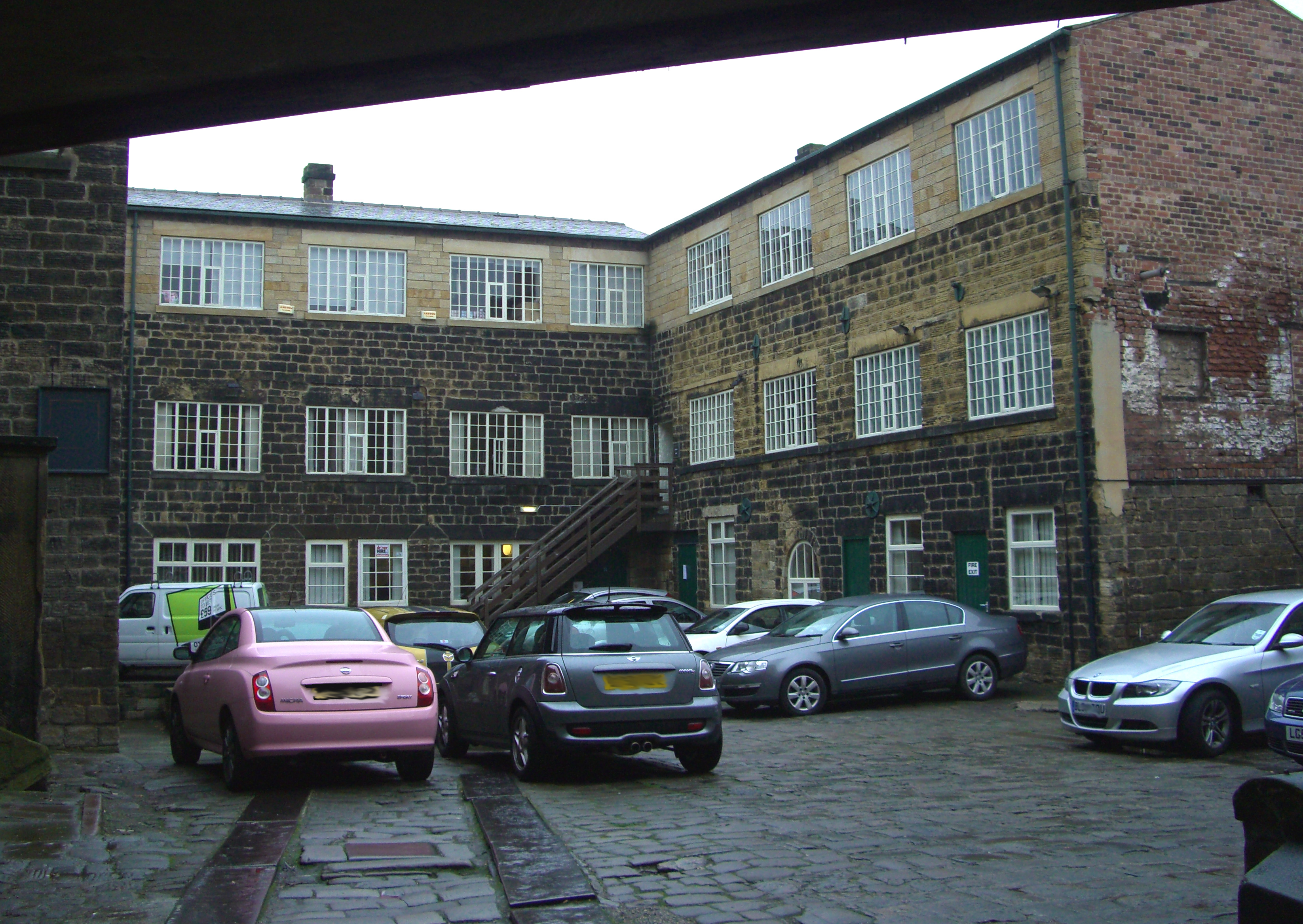 The courtyard of the Globe Works, Neepsend, Sheffield, England